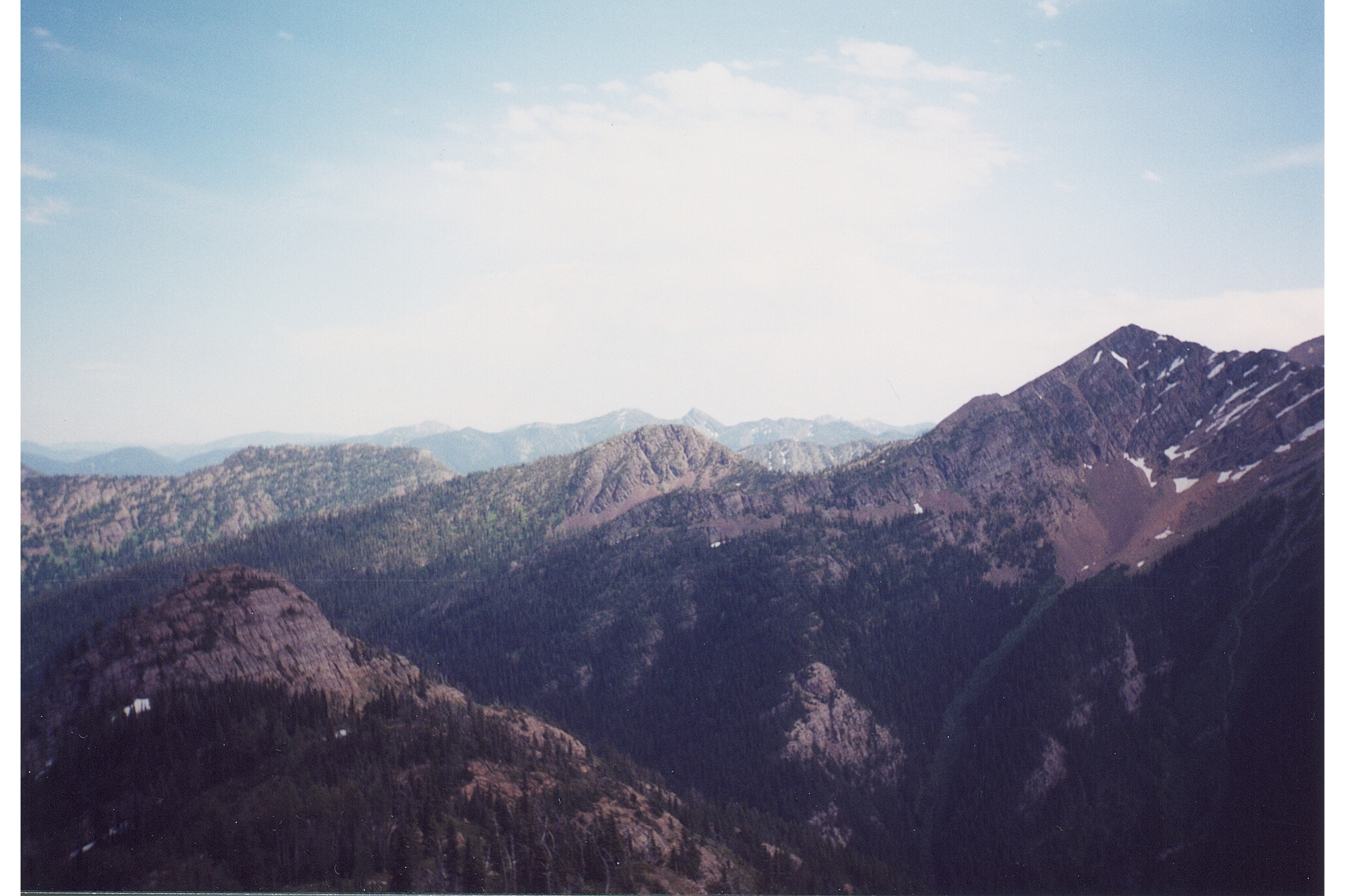 Looking south along the crest of the Swan Range, western border of the Bob Marshall Wilderness Complex. Photo taken summer 2000 by John David Stutts.